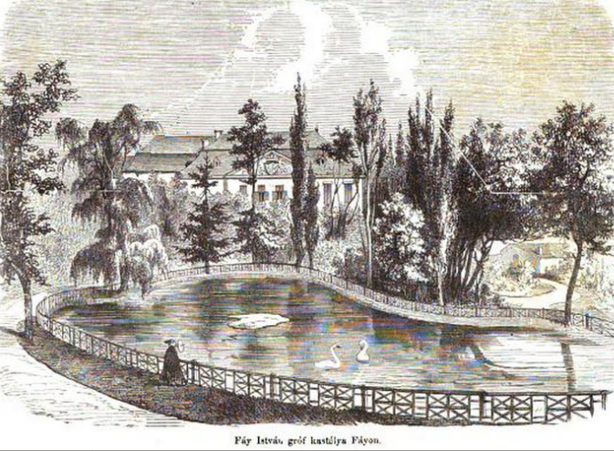 Castle in Fáj